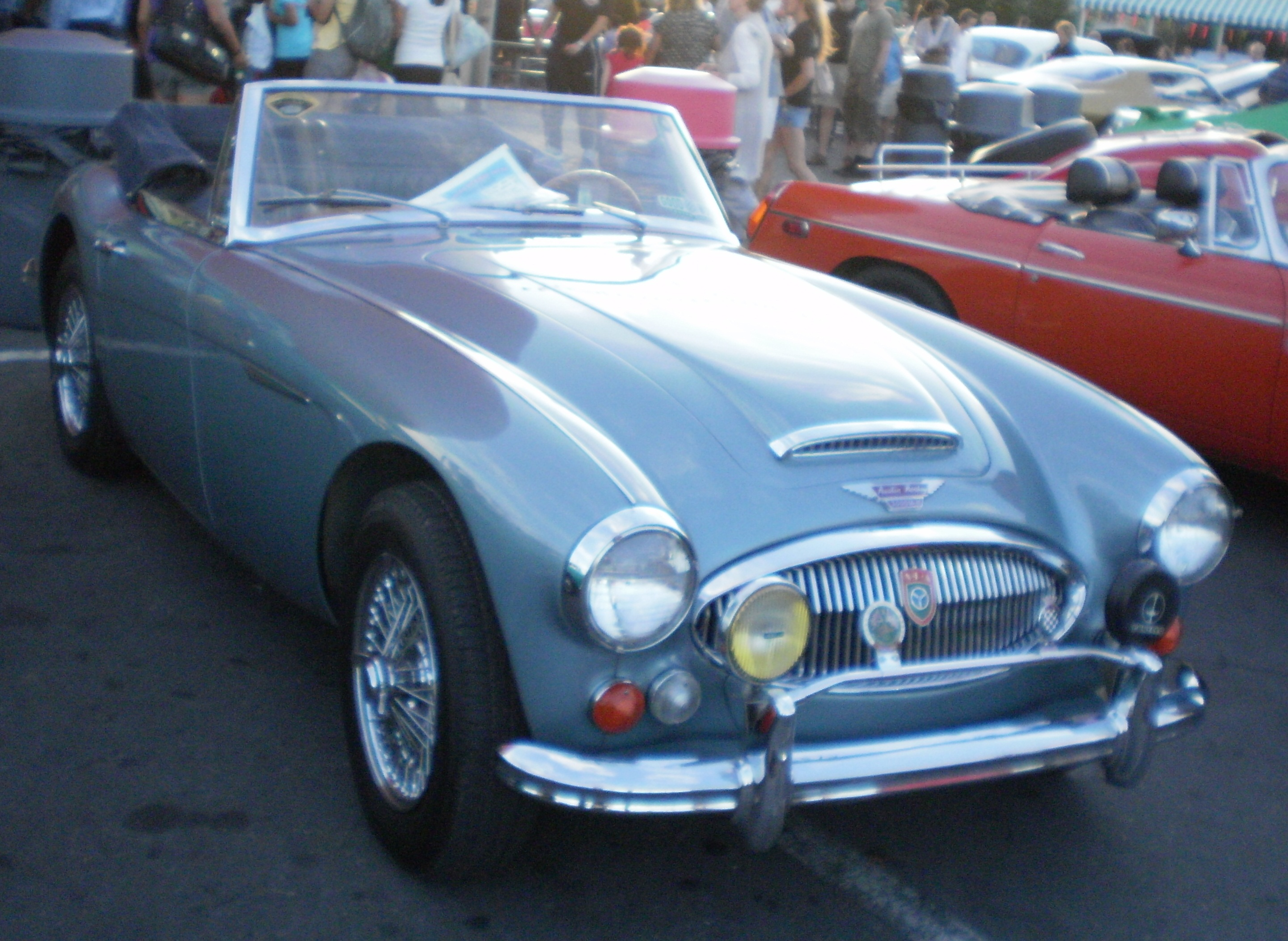 1966 Austin-Healey 3000 photographed in Montreal, Quebec, Canada at the Gibeau Orange Julep.